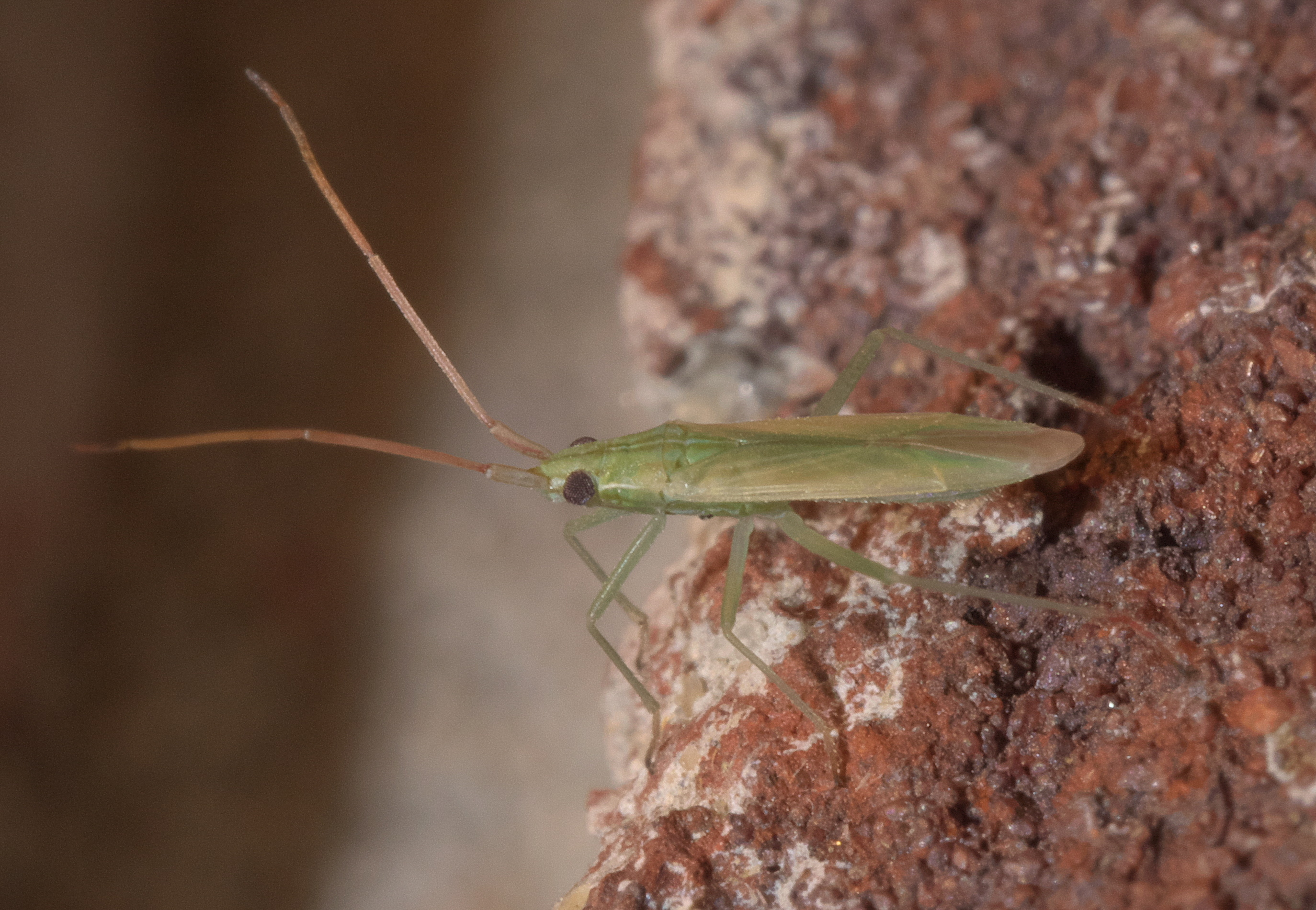 Trigonotylus caelestialium, Rice Leaf Bug, Size: 4.2 mm, ID Confidence: 90